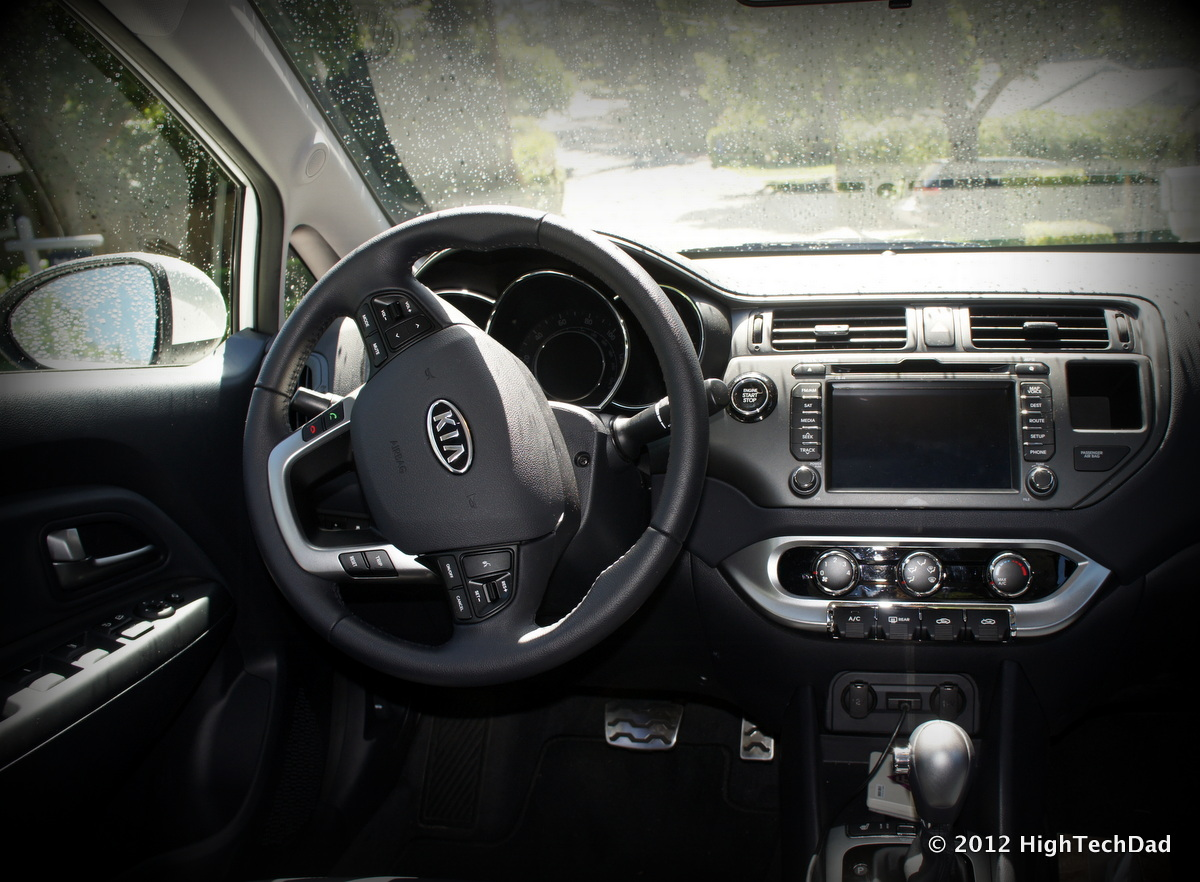 Photos from a 7-day test drive of the 2012 Kia Rio SX. More information can be found at